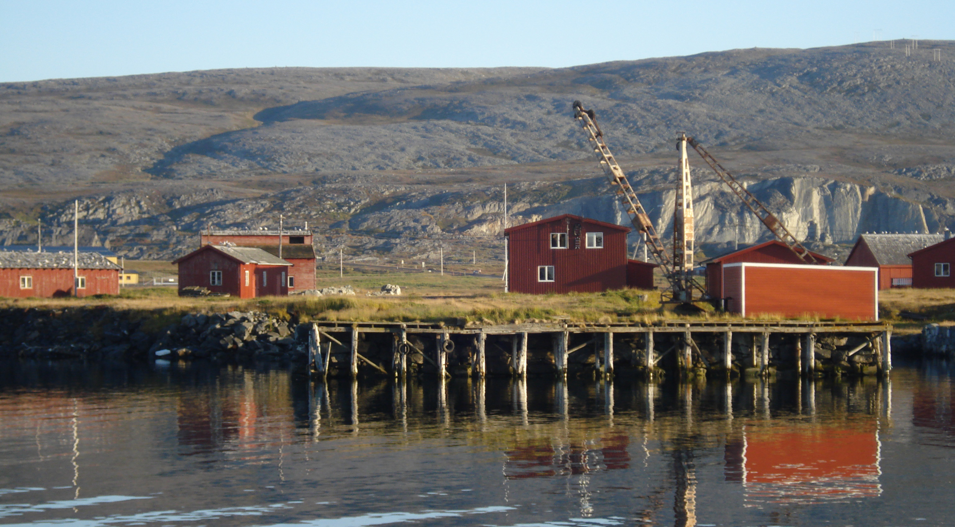 You can see the red buildings of Berlevåg Harbour Museum